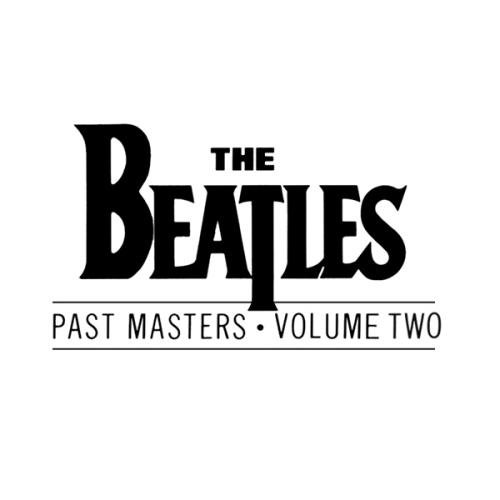 Past Masters 2 album cover of British band The Beatles.